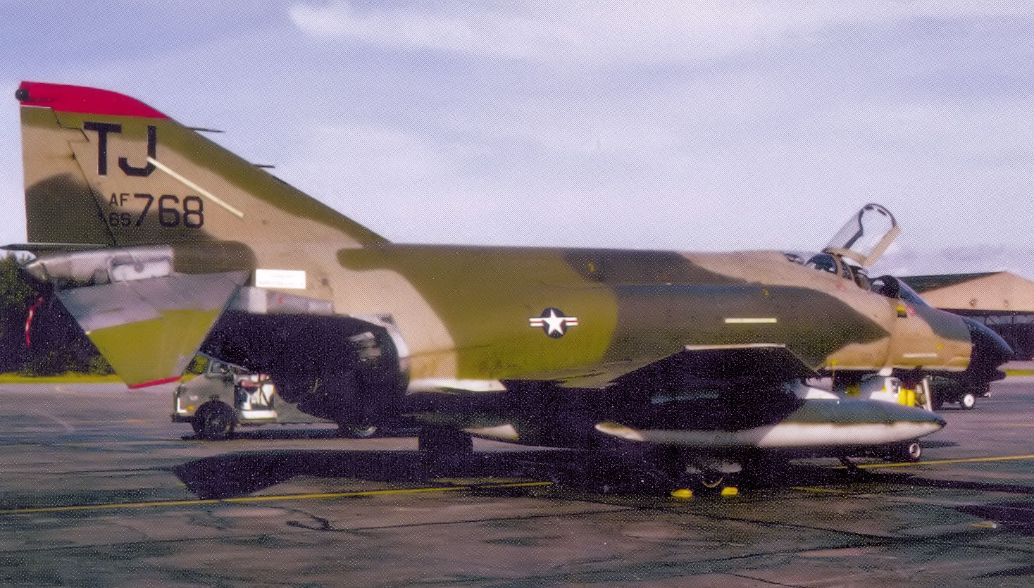 614th Tactical Fighter Squadron McDonnell F-4D-31-MC Phantom 66-7768 Torrejon Air Base, Spain, 1978. Retired to AMARC as FP0476 Apr 3, 1990. Now on display at Bastrop, TX.